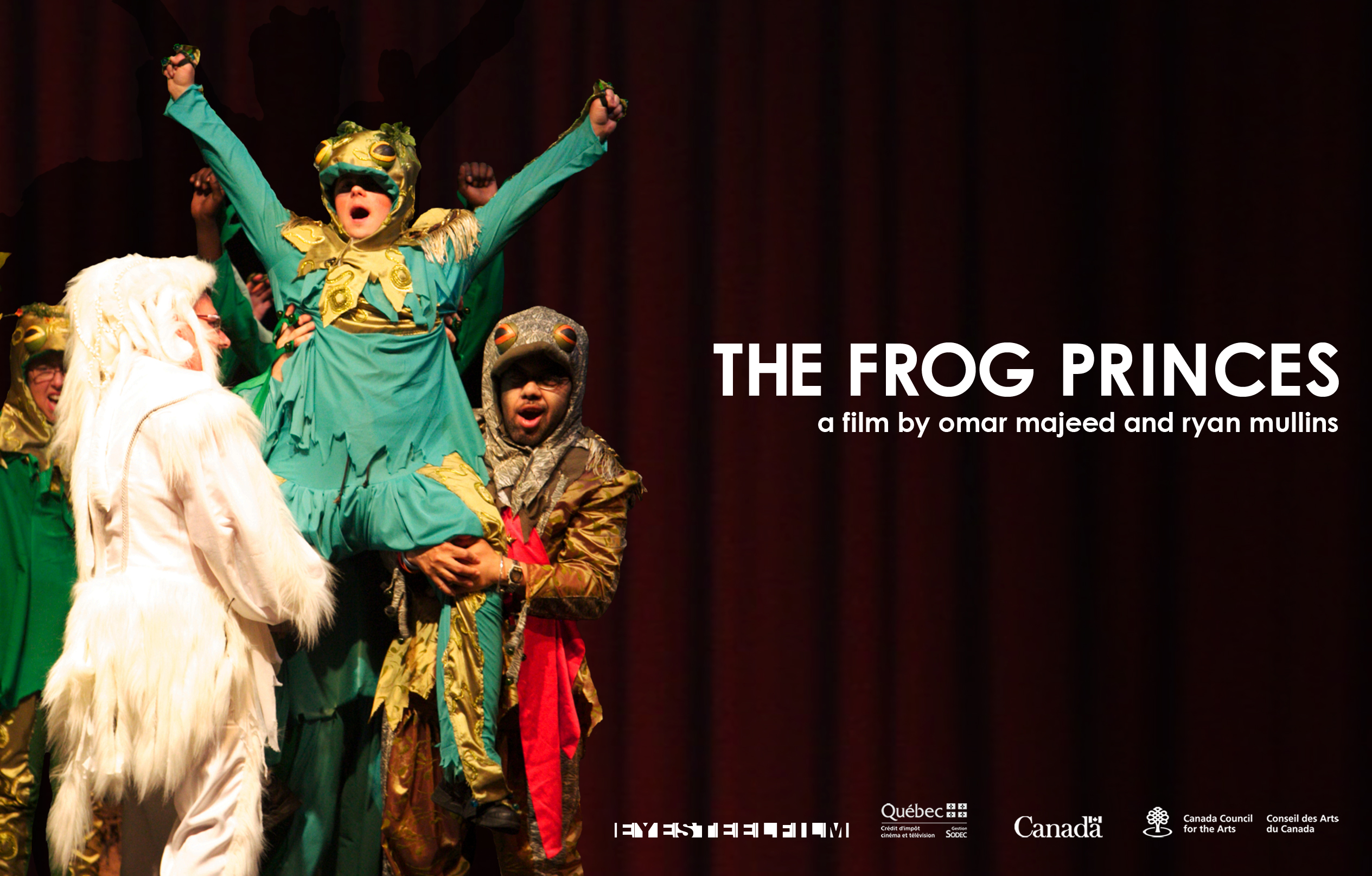 Poster Image for The Frog Princes © Tristan Brand, EyeSteelFilm Productions